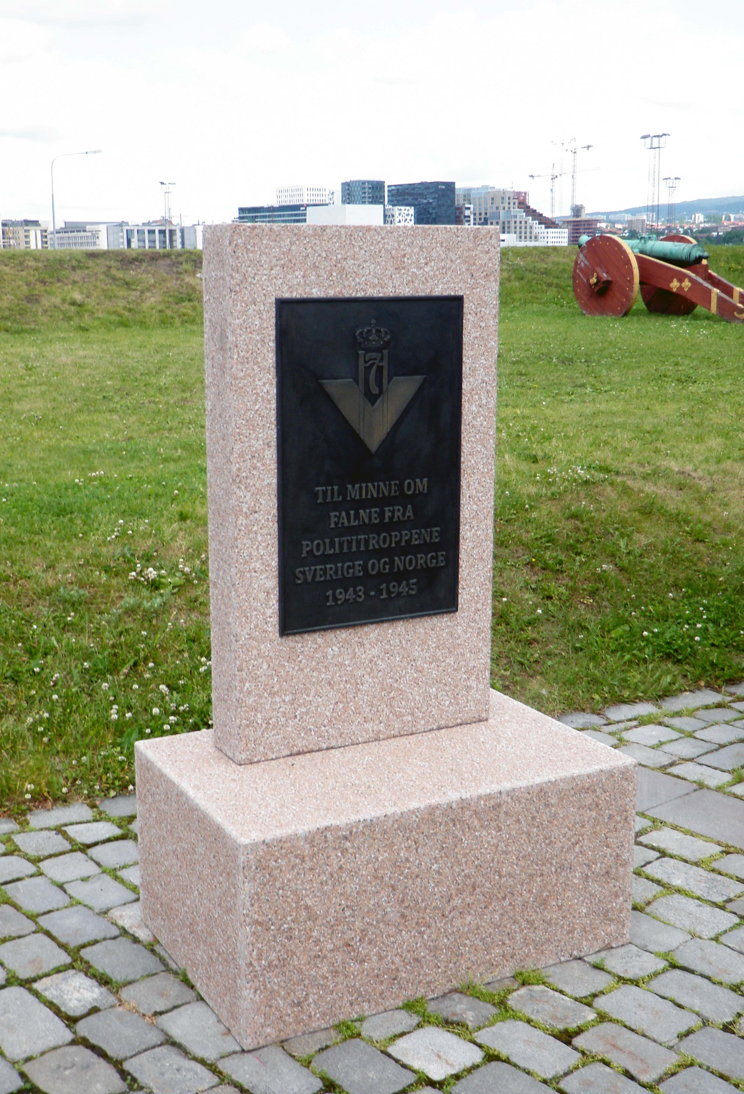 Memorial stone in memory of Norwegian police troops who lost their lives during service in Norway and Sweden during the Second World War. The memorial is located next to the Armed Forces Museum at Akershus Fortress, in Oslo, Norway. The Norwegian language text translated to English reads: "In memory of fallen from the police troops - Sweden and Norway 1943-1945